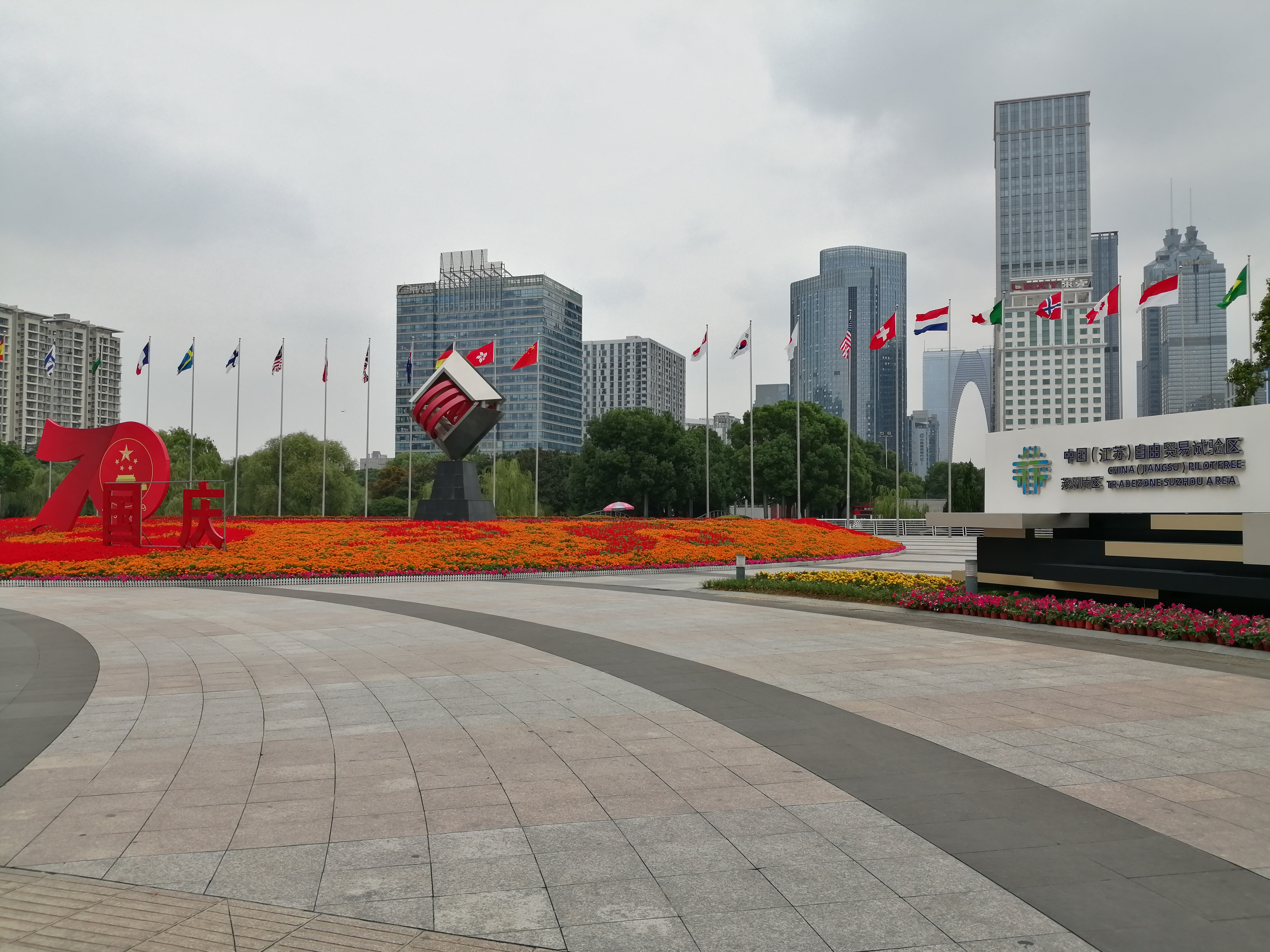 The west entrance of China (Jiangsu) Free Trade Pilot Zone Suzhou Area, near the Central Park. There is a large logo of the 70th anniversary of the People's Republic of China. 中文（中国大陆）: 中国（江苏）自由贸易试验区苏州片区的西入口，位于中央公园附近。另一旁有中华人民共和国成立70周年的标志。